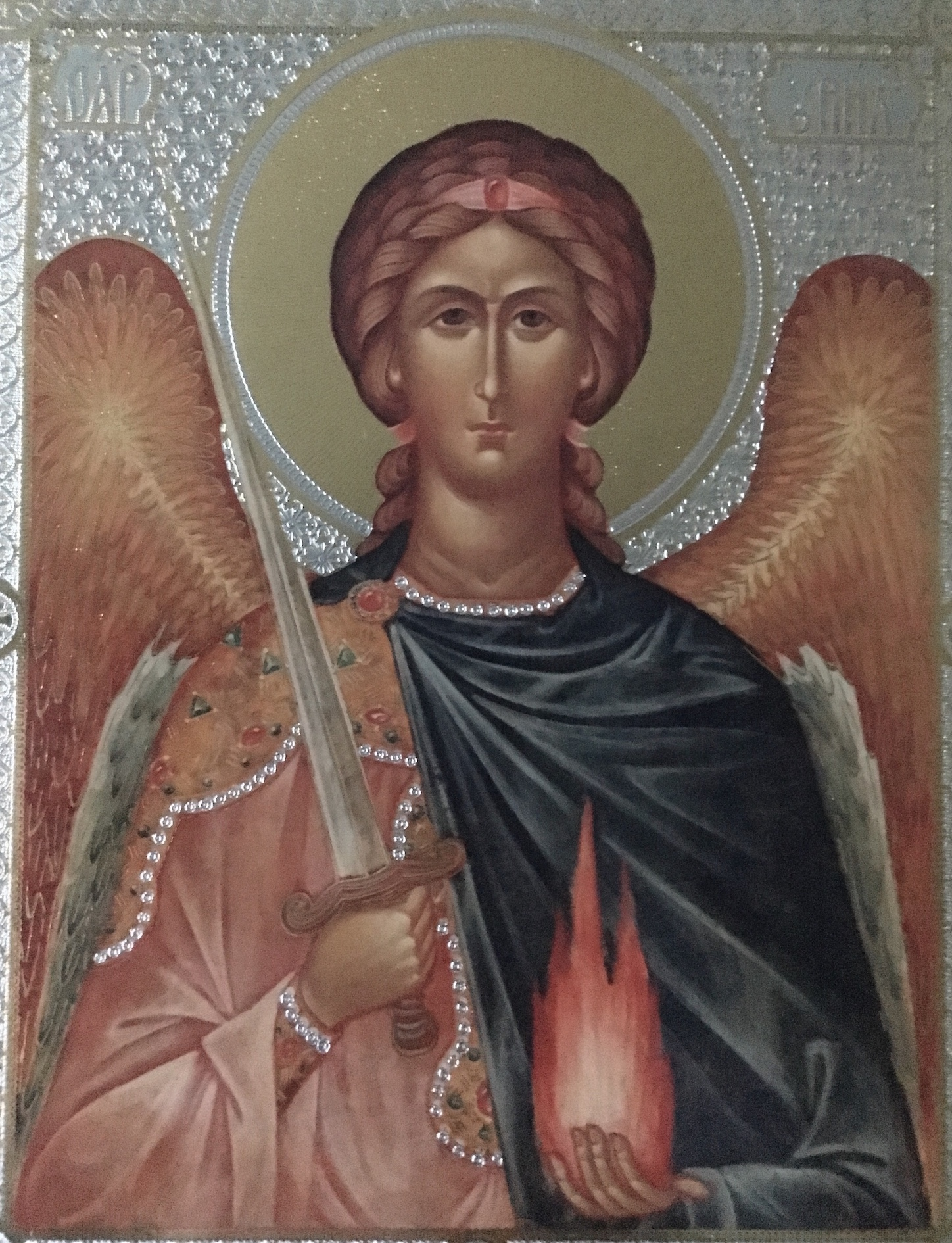 Orthodox icon of the Archangel Saint Uriel.